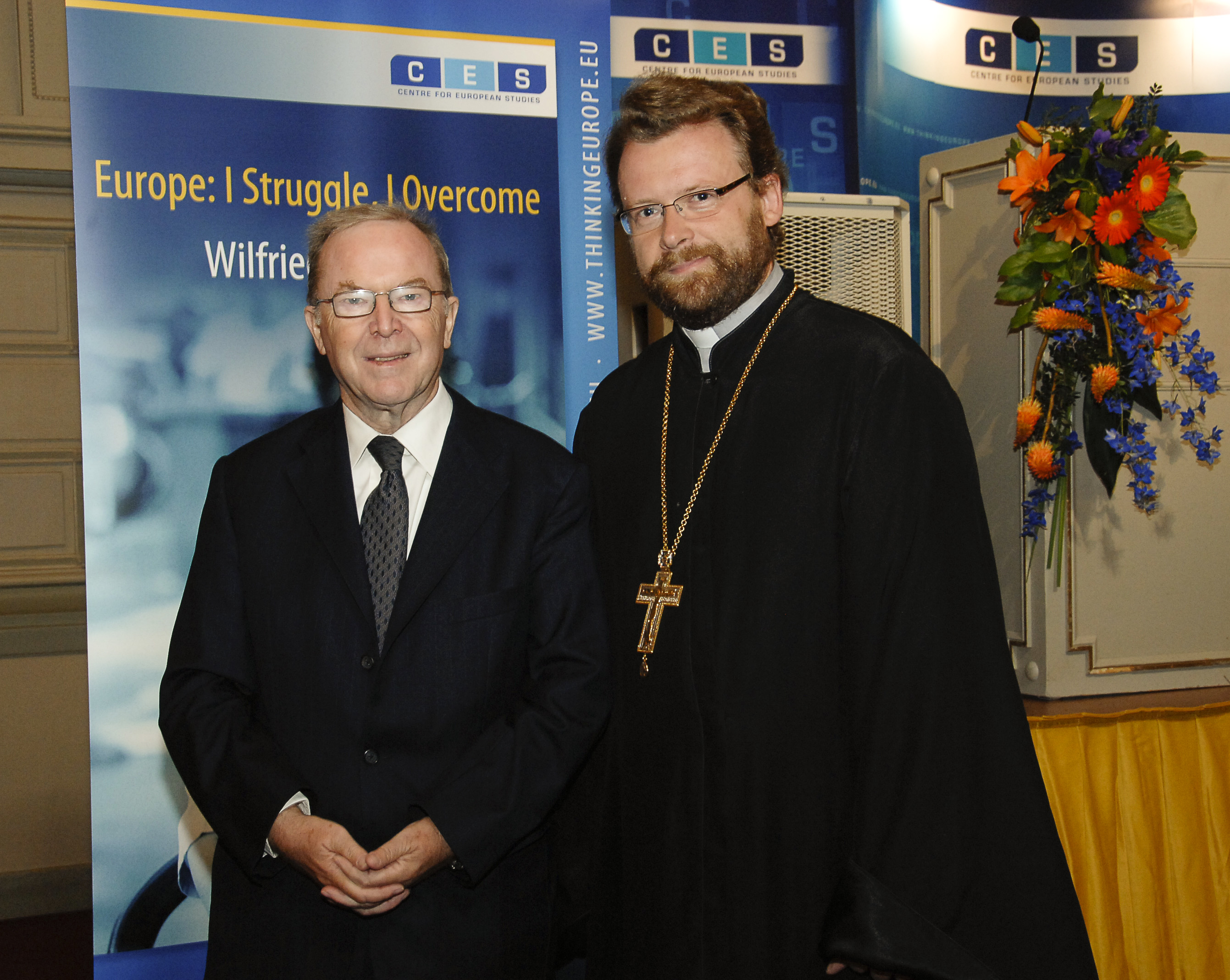 "I Struggle, I Overcome" - book launch